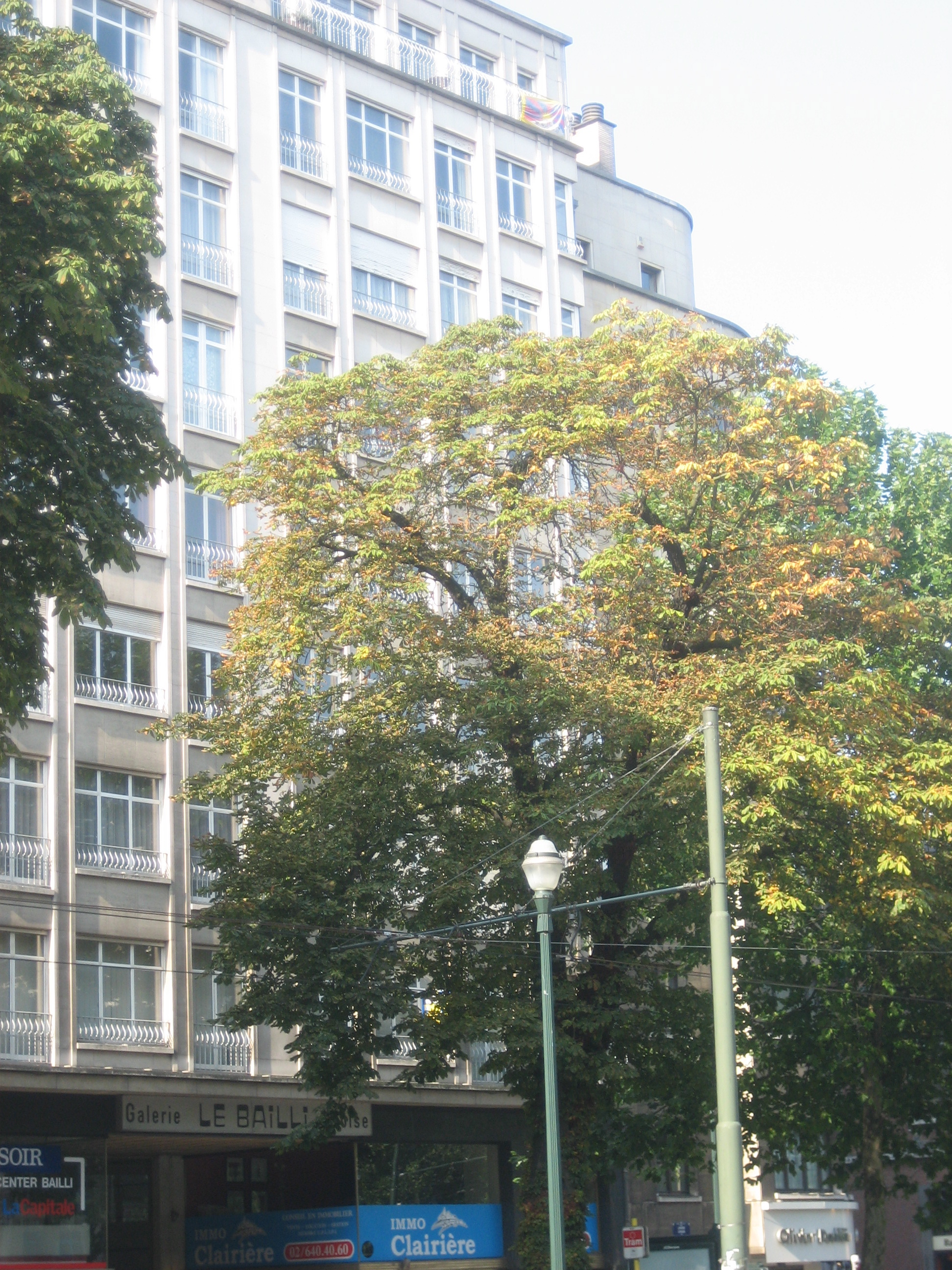 Building on Av. Louise n Brussels